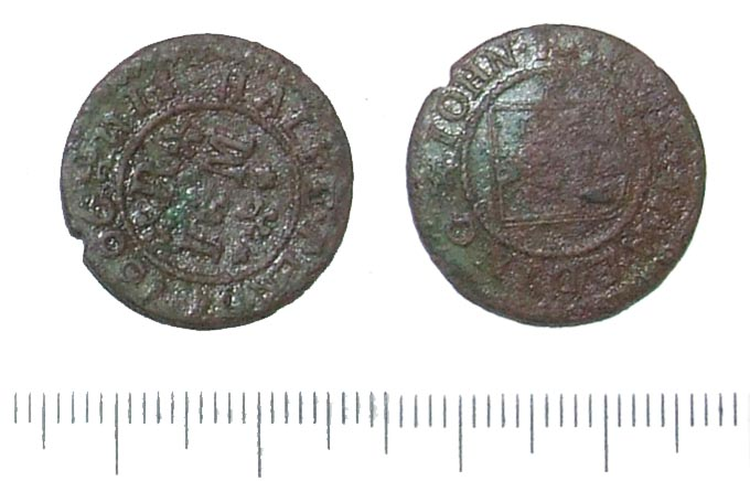 A 17th century copper alloy trade token of John Ray of Spalding. Townsend (1983) writes 'John Ray was grandfather of the Rev. Benjamin Ray, Perpetual Curate of Cowbit and Surfleet (who was elected a member of the Spalding Gentlemen's Society in 1723), and a relative of the founder, Maurice Johnson.' (p. 50).